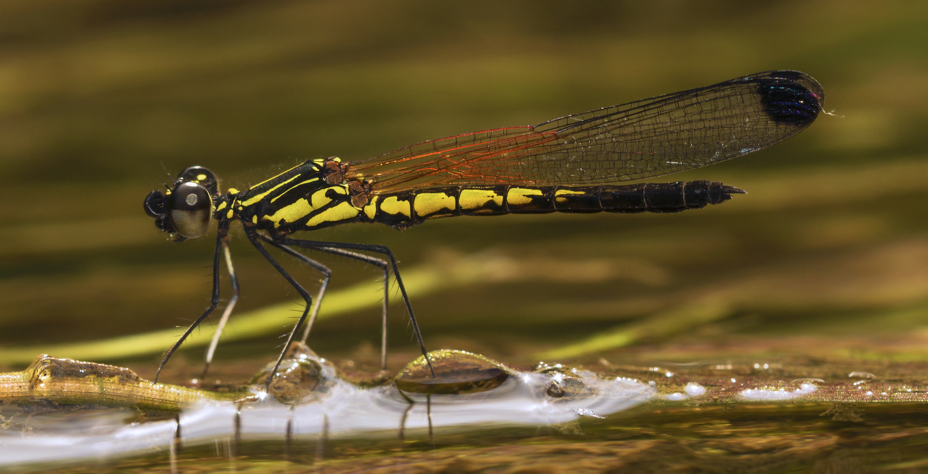 Libellago indica, Southern Heliodor, is a small black and yellow damselfly with black tipped transparent wing; confined to hill streams and rivers of forested landscapes. Frequently sits in emergent water plants and overhanging bushes. Their preferred home is along the banks of rivers.